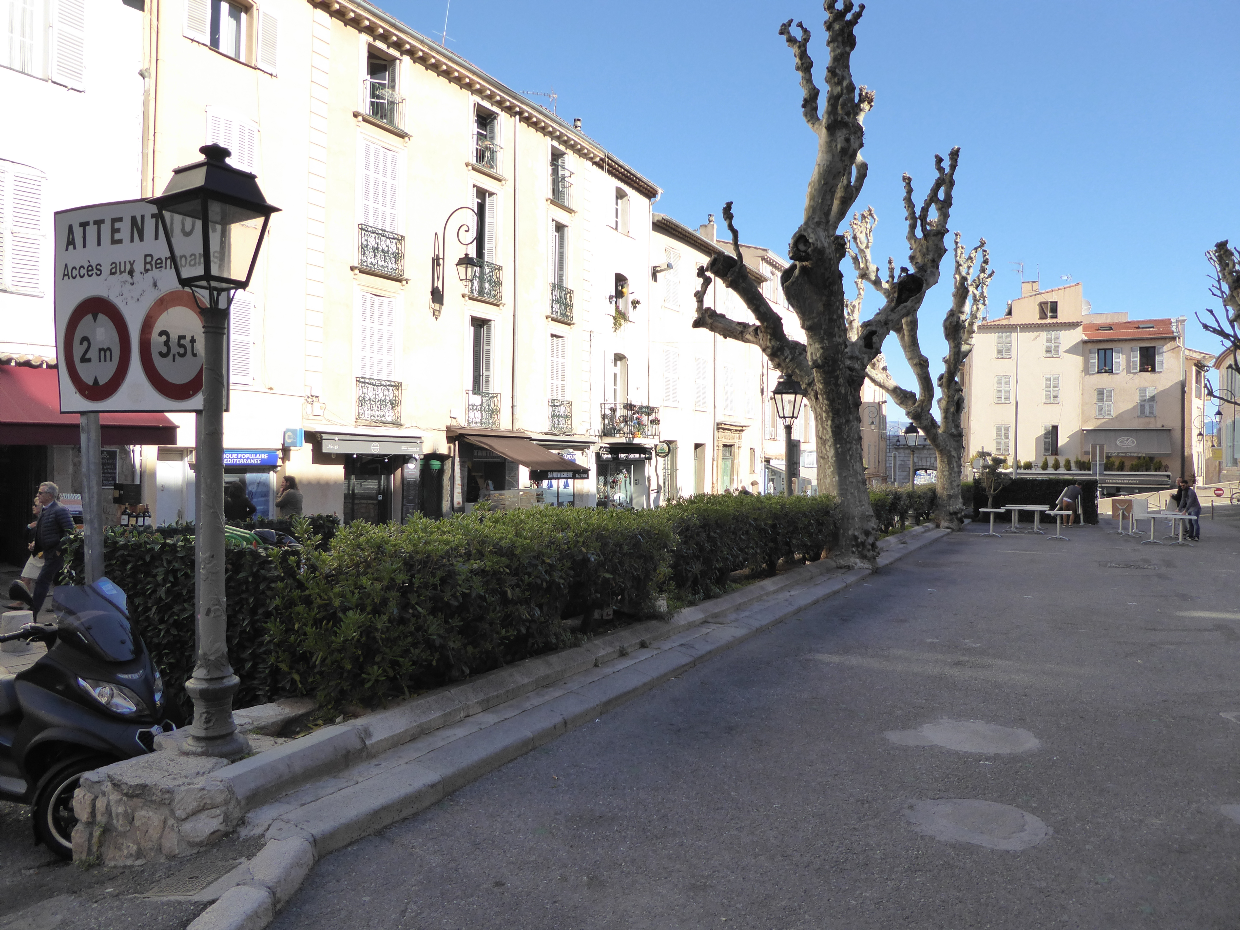 Place Jacques Audiberti, Antibes